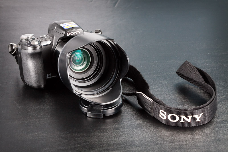 Sony Cybershot DSC-H50 shown with lens hood attached